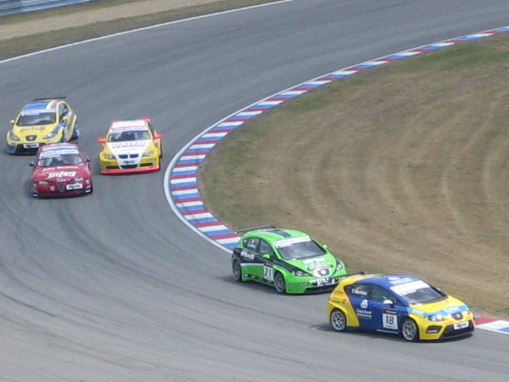 WTCC 2007 - Brno